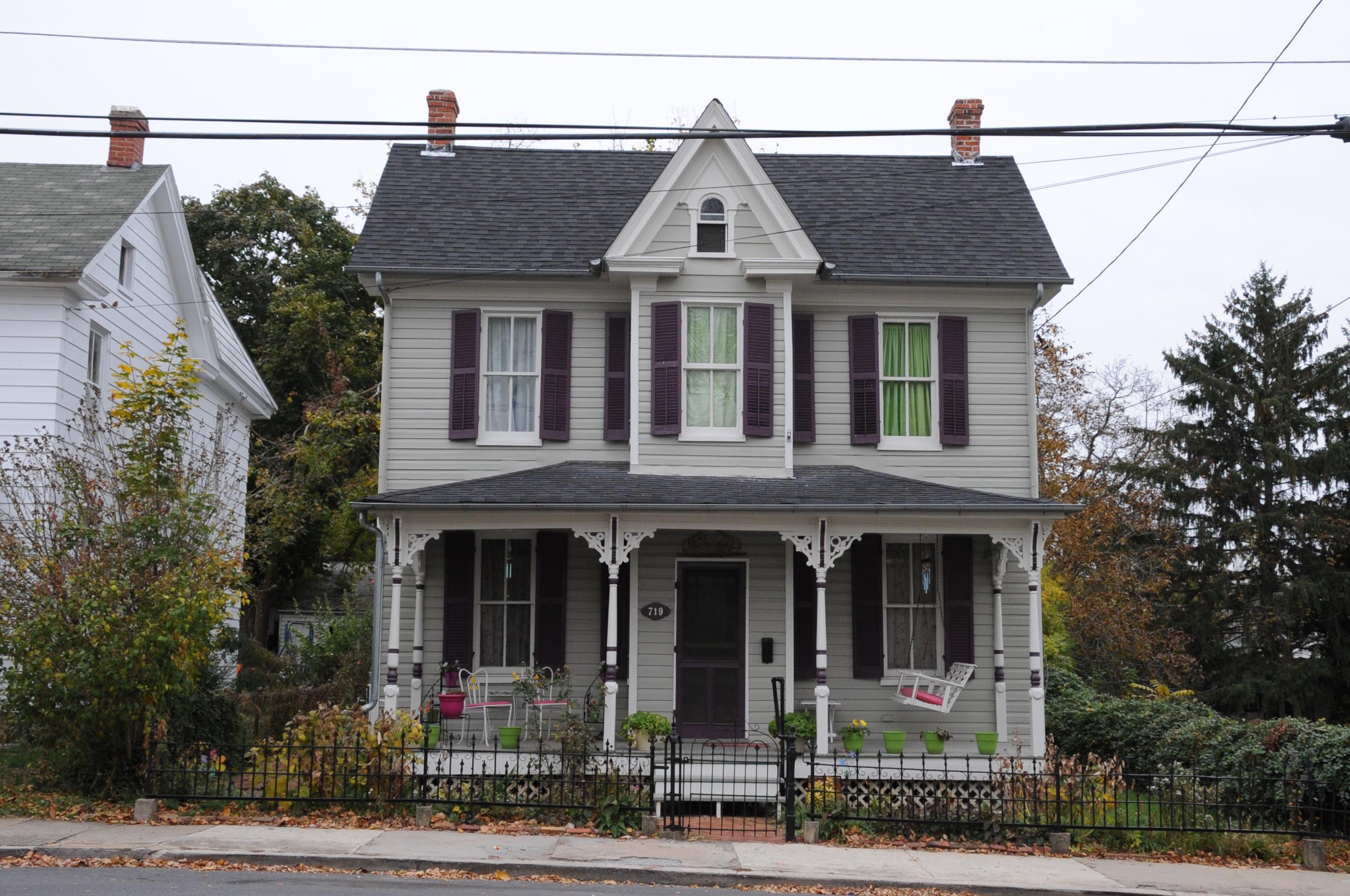 THE AREA IS PRIMARILY RESIDENTIAL DEVELOPED BETWEEN 1891 AND 1952 FOR WORKERS HOUSING. THIS IS A QUEEN ANNE STYLE HOME AT 719 RALEIGH STREET